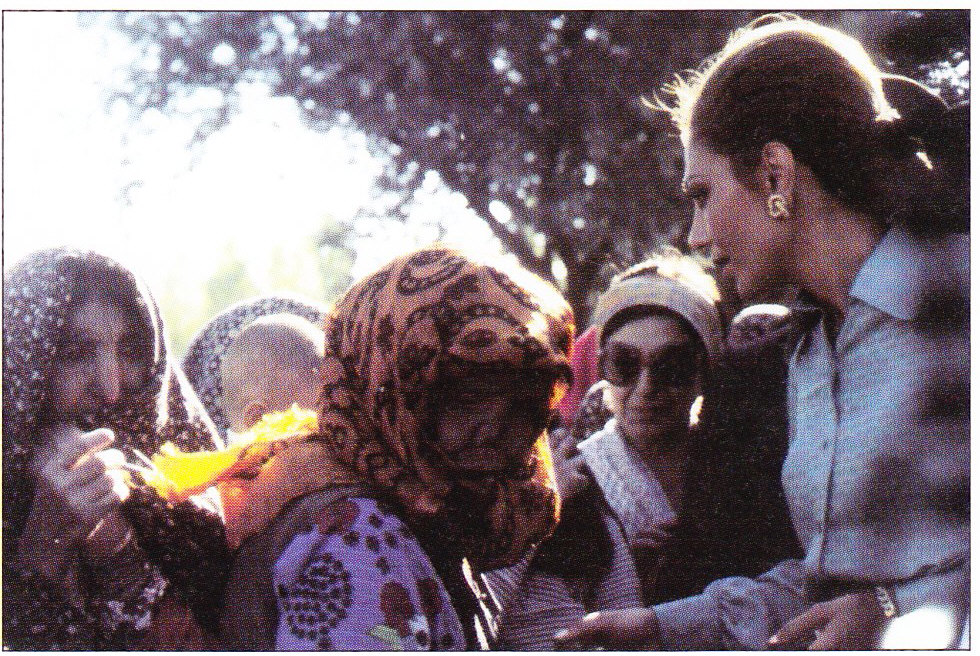 Farah Pahlavi besucht das Dorf der Leprakranken in Baba Baghi im Iran